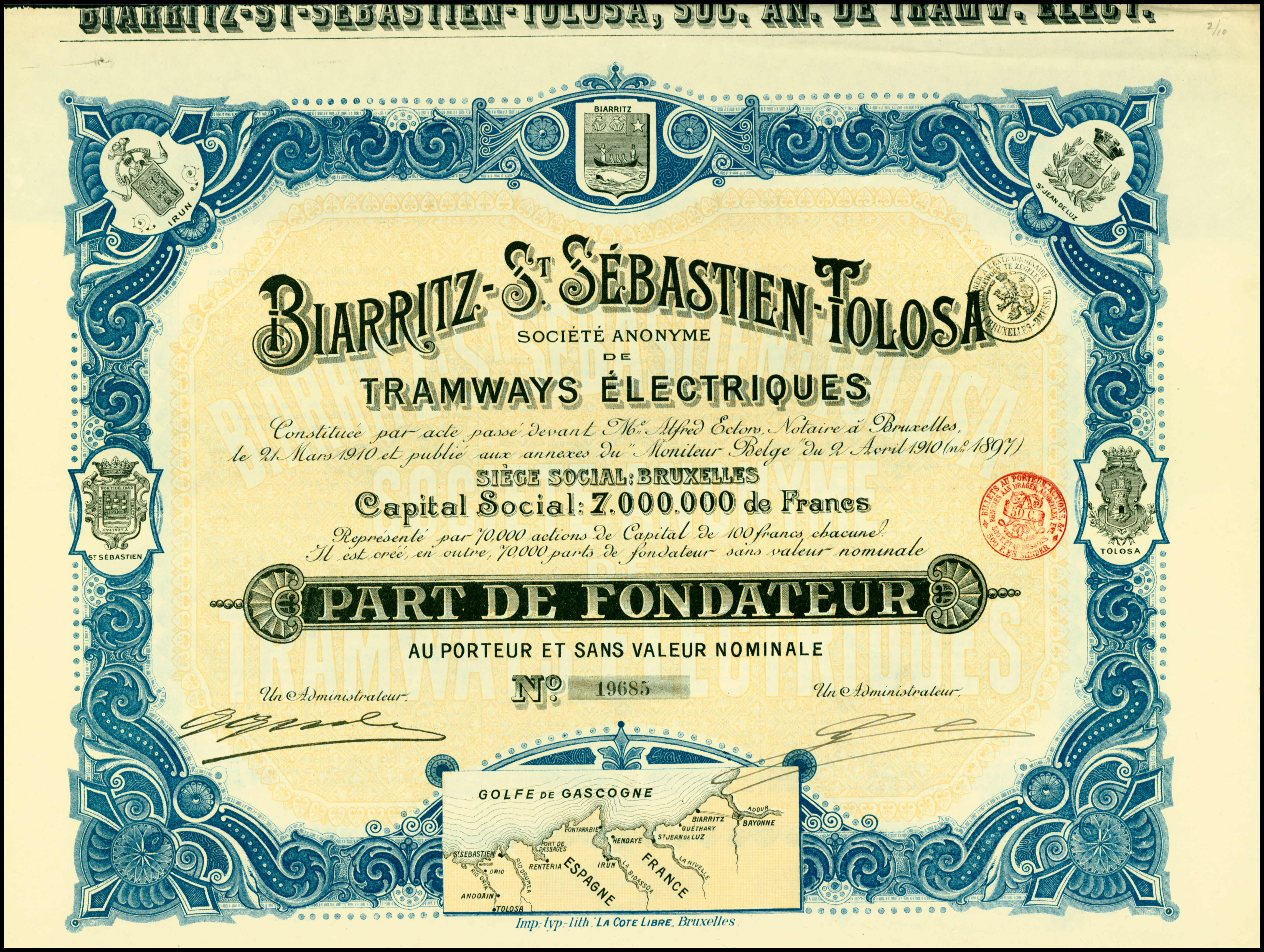 Part de Fondateur of the S. A. de Tramways Électriques Biarritz-St. Sebastién-Tolosa, issued 2. April 1910